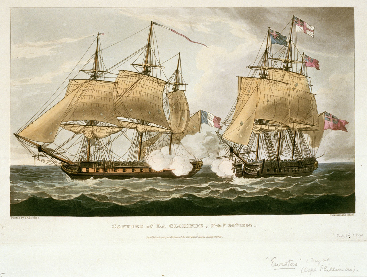 Capture of La Clorinde, Thomas Whitcombe, 1 Mar 1817, in the collection of the National Maritime Museum.